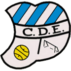 Historical badge of Club Esportiu Europa. Digitally enhanced and with alpha channel.